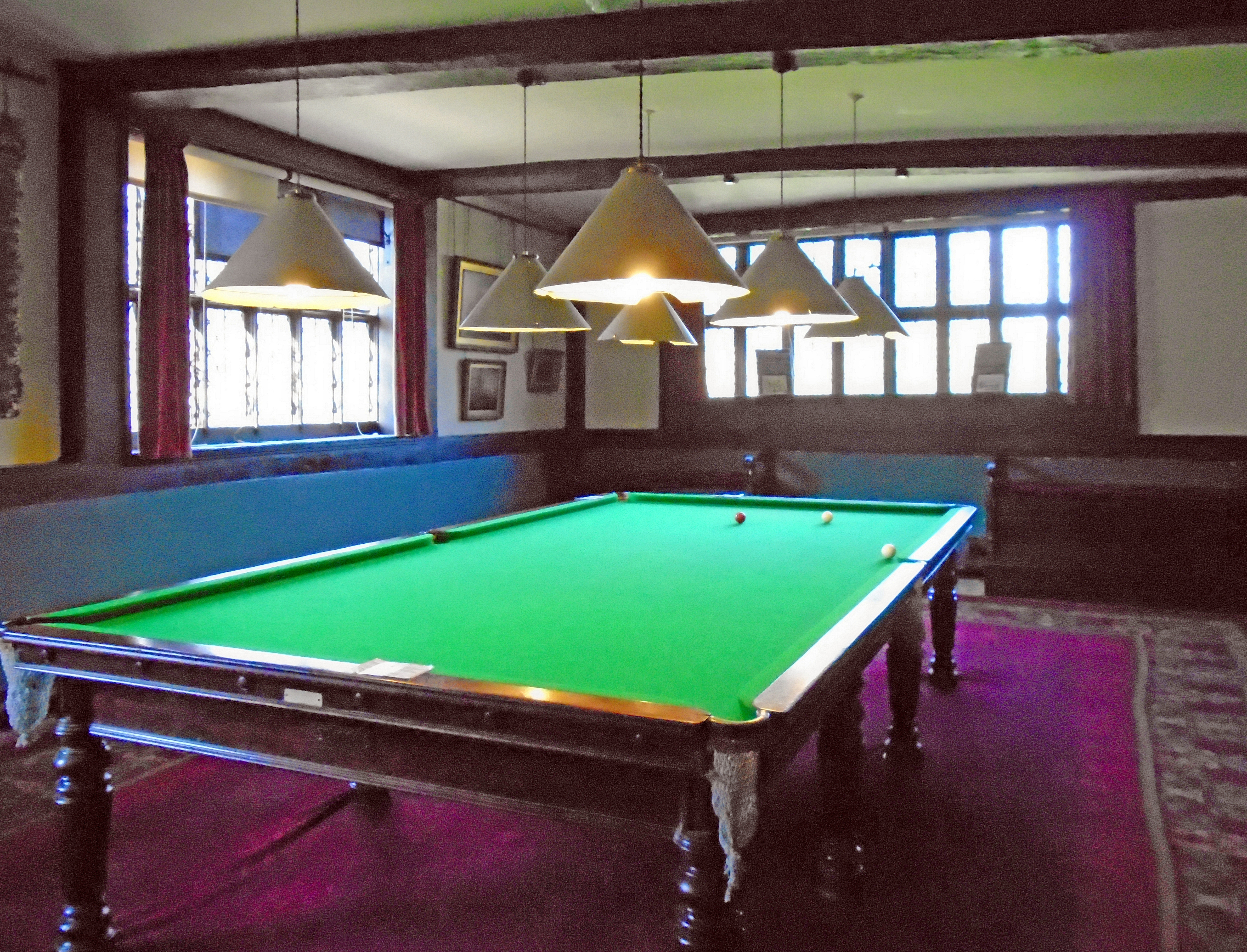 View showing windows on west & north side of the Hall.